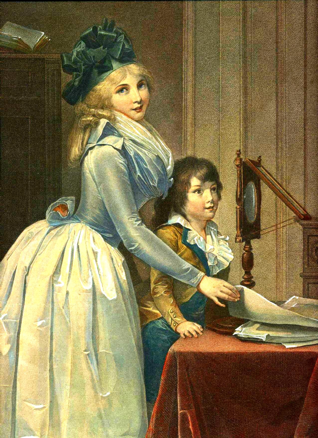 Illustration of Louise Gély (1776-1856), second wife to Georges Jacques Danton, wearing early 1790's "pouter pigeon" outfit, with Antoine Danton, son of Gabrielle Charpentier, the lawyer's first wife.